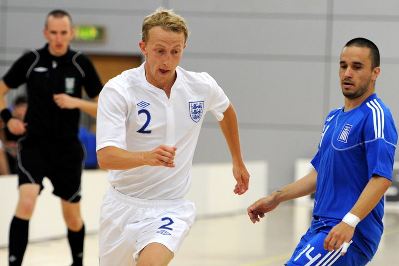 Mortlock-England-Futsal